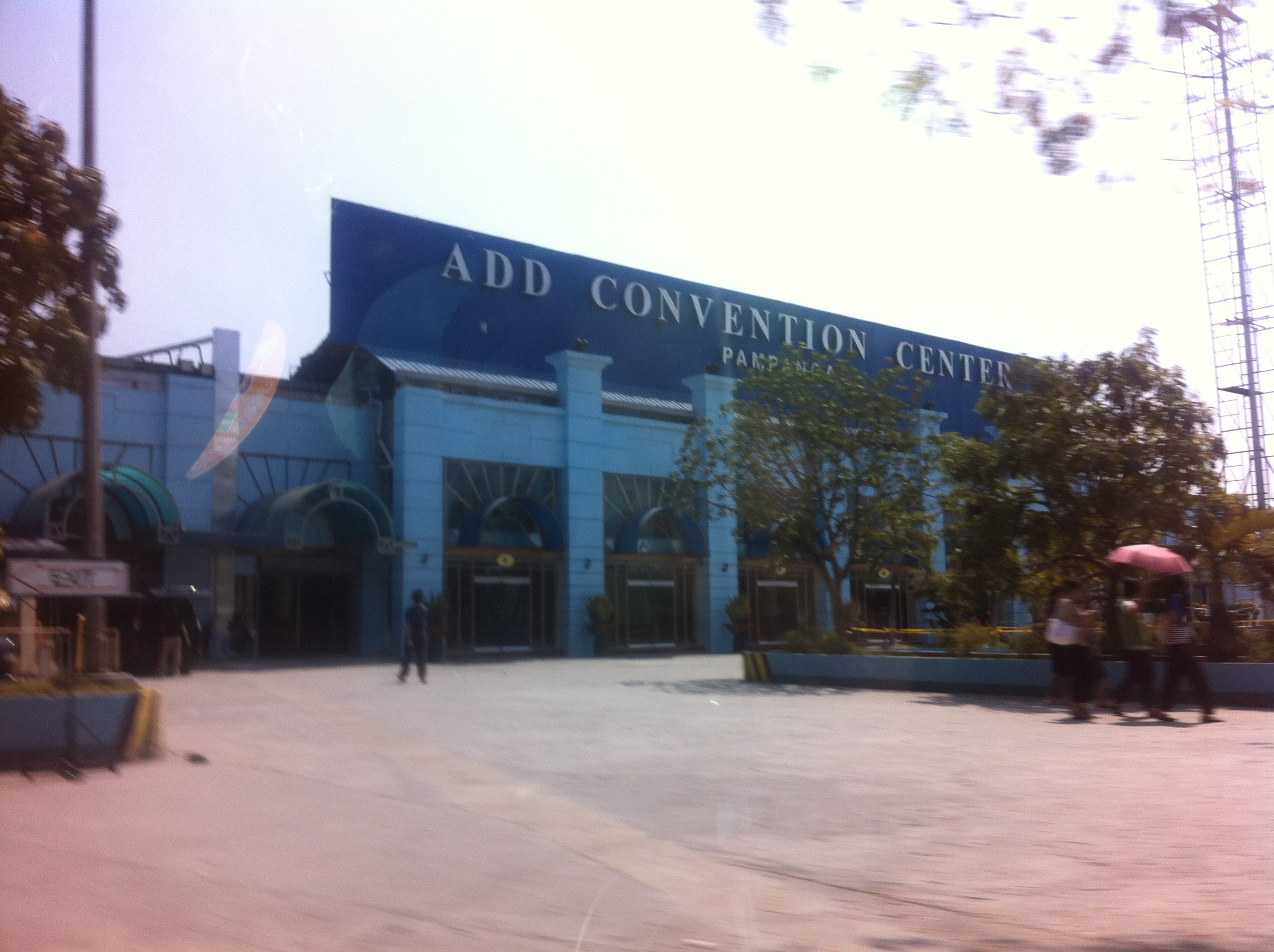 Daytime